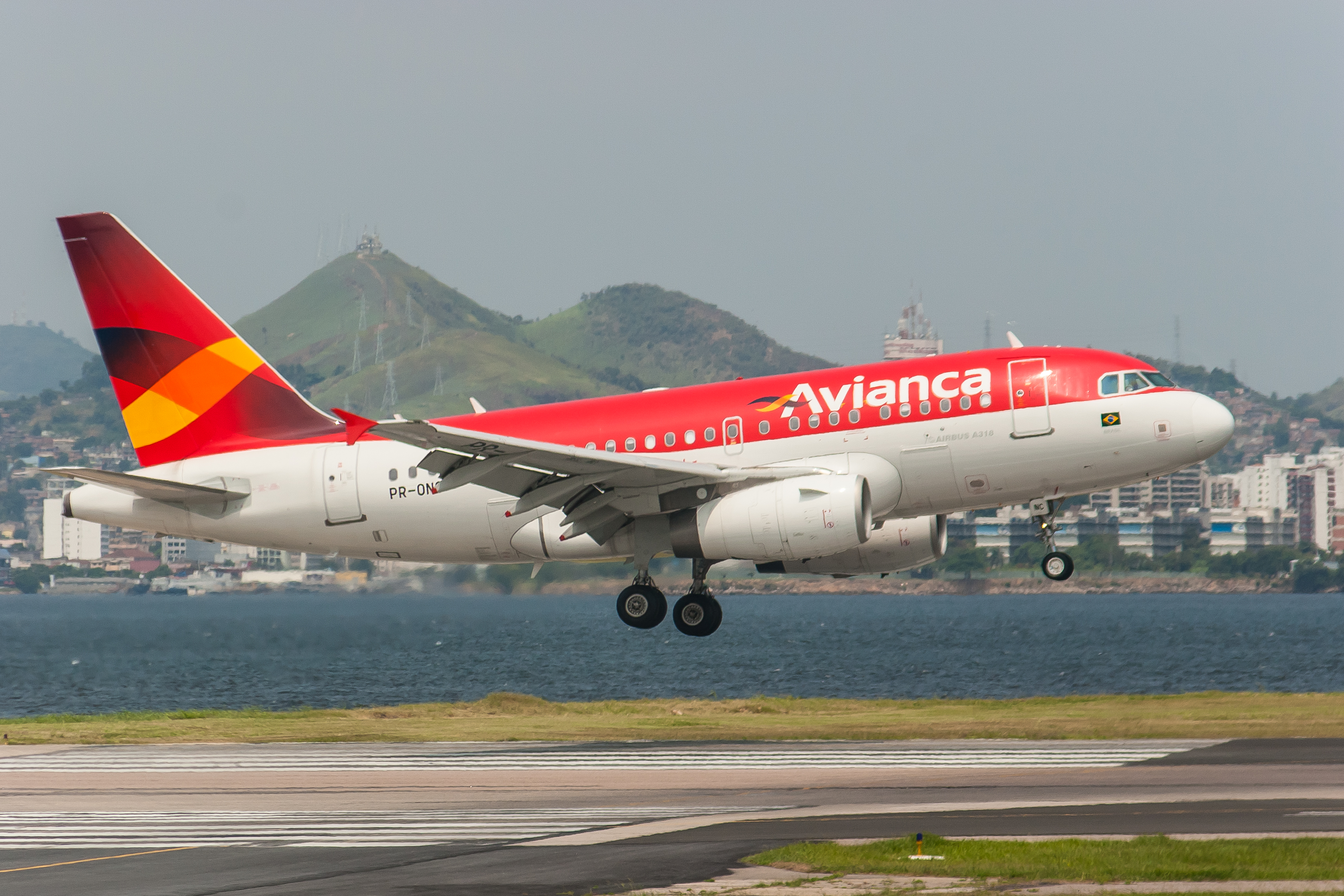 We were on holding point for runway 20L in SDU airport when the Airbus A318-121 landed. I shot this photo with a Canon 20D camera of my friend Renato Aranha and a 75-300mm lens of my other friend Fabio Laranjeira.